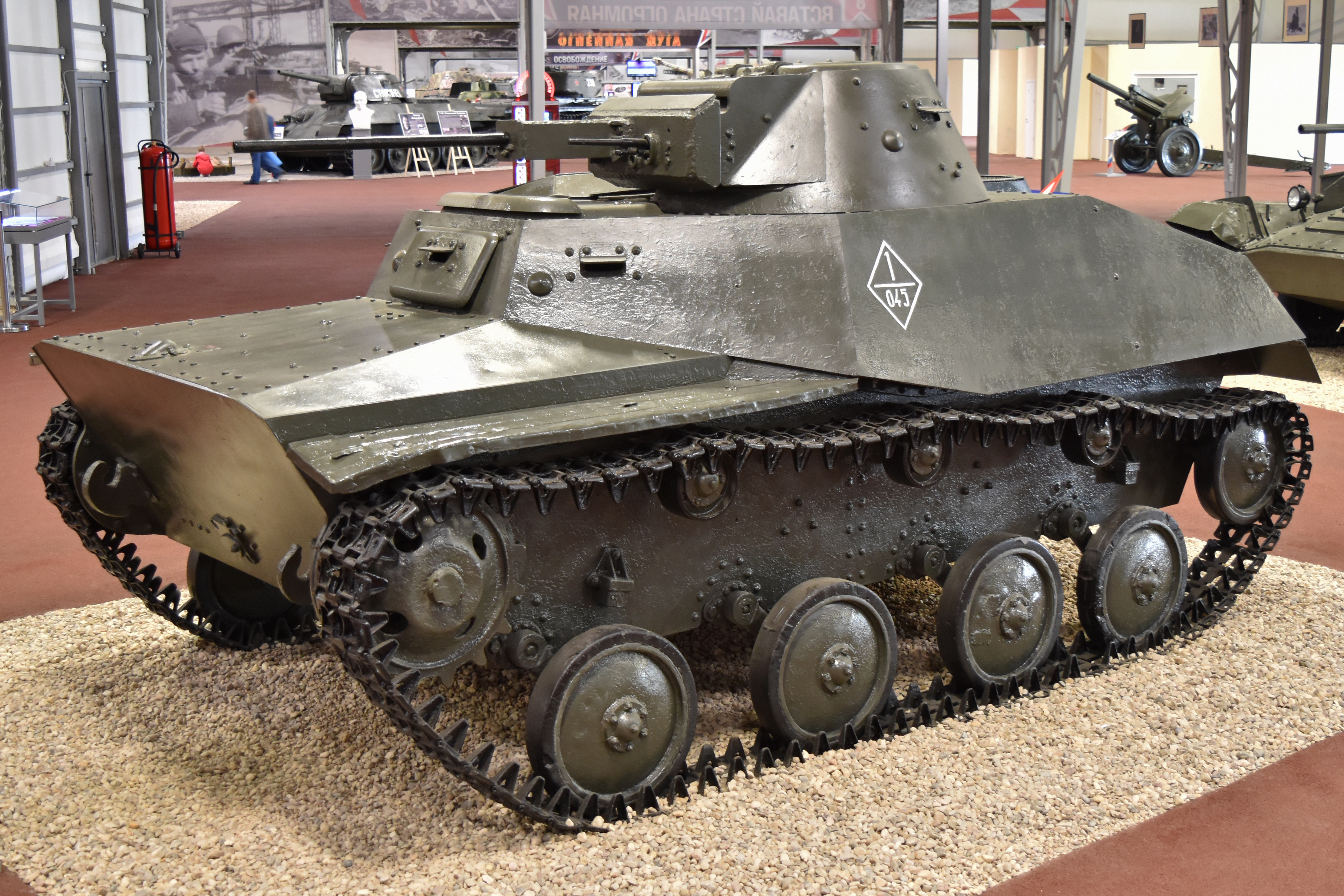 Soviet WW2 era Amphibious Light Tank Built:- 1940 to 1941 Total Production:- 222 Main Armament:- 12.7mm DShK machine gun The T-40 was to be the last Soviet amphibious tank of WW2. Production instead moved towards simpler tanks to increase speed of manufacture. This is probably the only surviving example and is on display in Hall 8 of the Patriot Museum Complex. Park Patriot, Kubinka, Moscow Oblast, Russia. 25th August 2017